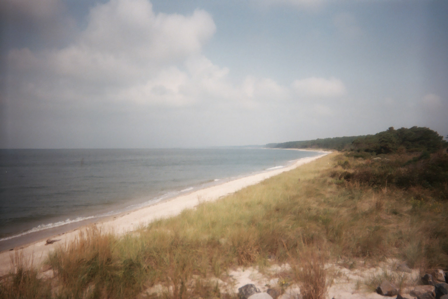 Fisherman Island, at the north end of the Chesapeake Bay Bridge-Tunnel in Virginia